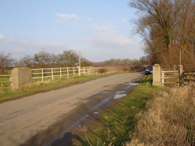 Bridge over Greatford Cut on Barholm to Stowe road. The Greatford Cut is not shown on the Geograph 1940s series OS maps